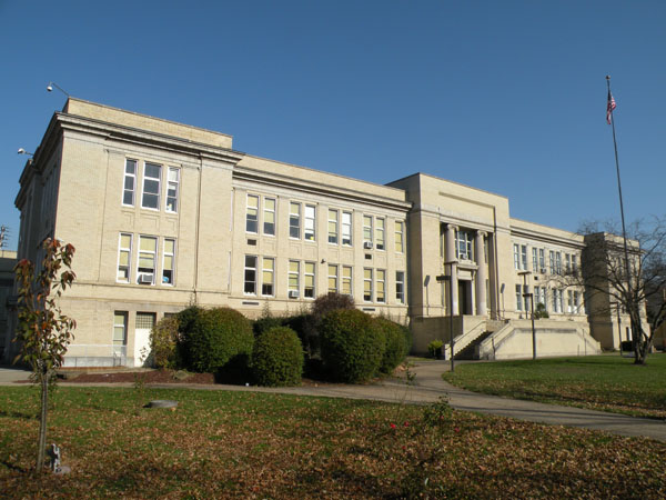 Picture of Turtle Creek High School located at 126 Monroeville Avenue in Turtle Creek, Pennsylvania, on November 8, 2009. The building was built in 1917, and is listed on the National Register of Historic Places.